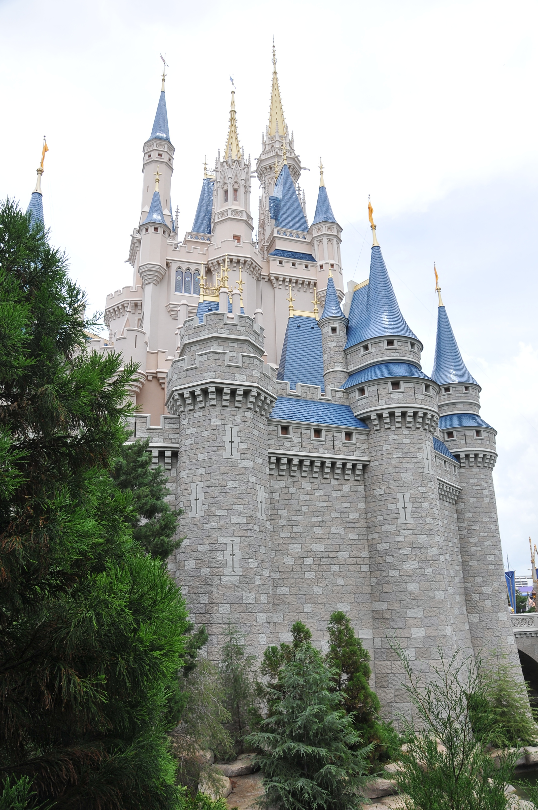 Picture of Walt Disney World Cinderella's Castle. Large stained glass window in picture was originally intended as Walt Disney's suite. It is now offered as a prize to stay in overnight.